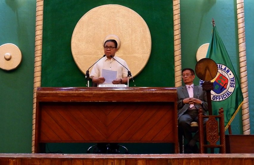 The Bangsamoro Transition Authority during its approval of the proposed transition plan as an interim Bangsamoro Parliament in a special session on June 17, 2019